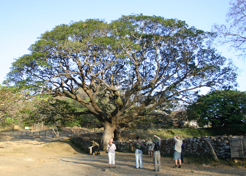 Albizia saman (= Samanea saman), Cenizaro, in Guanacaste, Costa Rica.